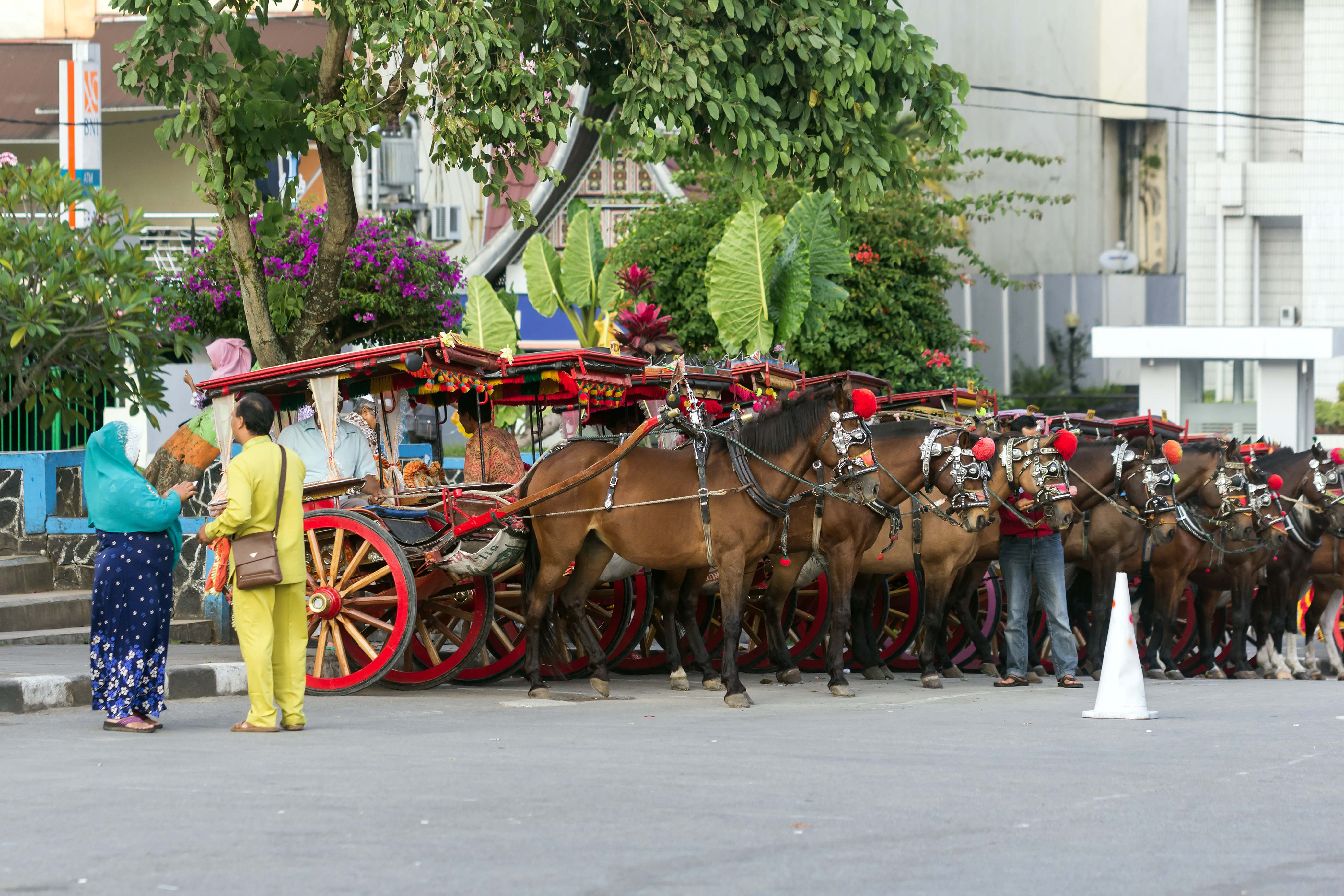 Row of bendi carriages, Jam Gadang plaza, Bukittinggi, 2017-02-12